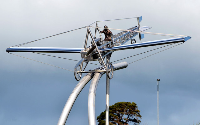 A recently-erected sculpture, near the flyover J2358 : Flyover, Hillsborough (6) at the southern end of the Hillsborough bypass, commemorating Harry Ferguson (1884/1960) LinkExternal link an engineer and pioneer aviator, who was born at Growell between Hillsborough and Dromore. The following is a part-quotation from a press release issued by Lisburn City Council: “The sculpture is a joint venture between top Ulster sculptor John Sherlock OBE, and PF Copeland Ltd, one of Ireland’s leading metal fabricators, based in Newtownabbey. . . . . ”The sculpture shows his splendid aircraft as it’s just about to make its historic landing, with Harry waving to the watching crowds in celebratory mood. . . . . The overall sculpture is half-life size, and will be seen by up to 30,000 passing travellers each day on the A1 Dual Carriageway, under the Hillsborough Fly-over . . . . .This project was funded by Lagan Rural Partnership under the Rural Development Programme and Lisburn City Council”